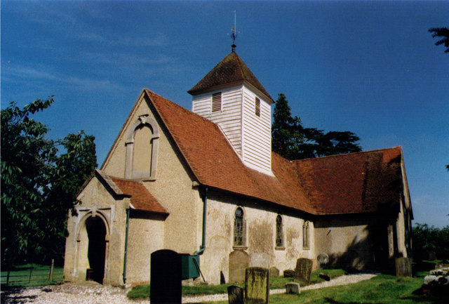 St Nicholas' parish church, Wasing, West Berkshire, seen from the southwest